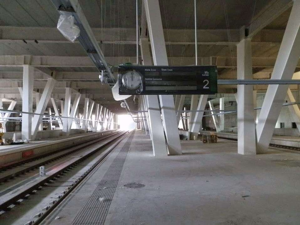 Vigo Urzaiz Plataforms